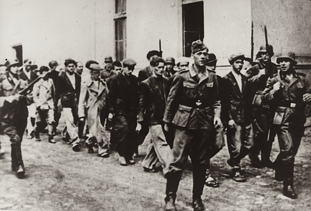 Germans escort people from Kragvjevac and its surrounding area to be executed